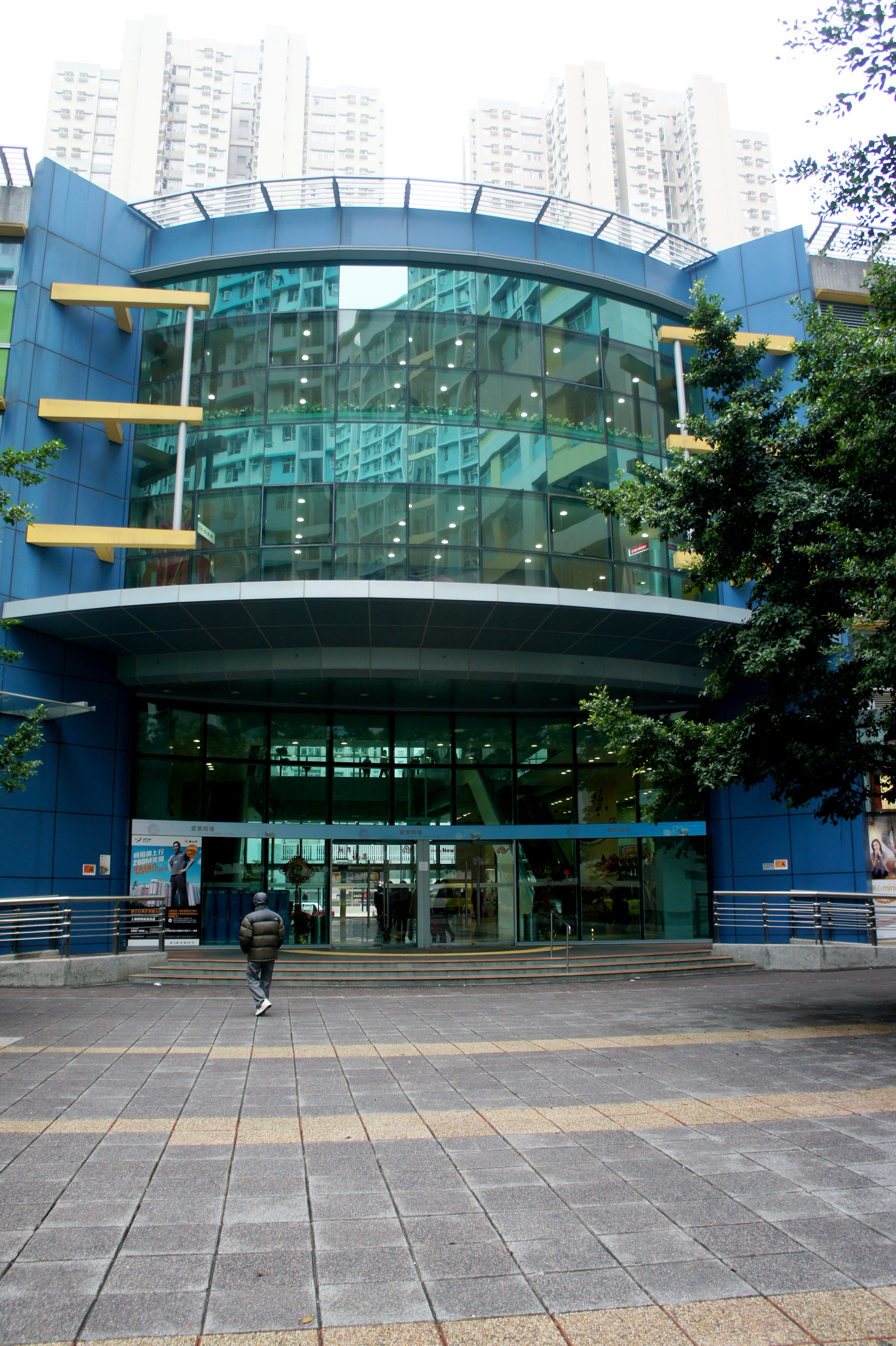 West entrance, Oi Tung Shopping Centre, 18 Oi Yin Street, Shau Kei Wan, Hong Kong